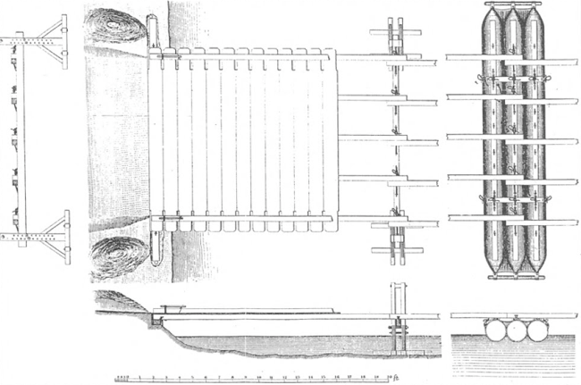 A A ponton bridge proposed by Gen. Cullum